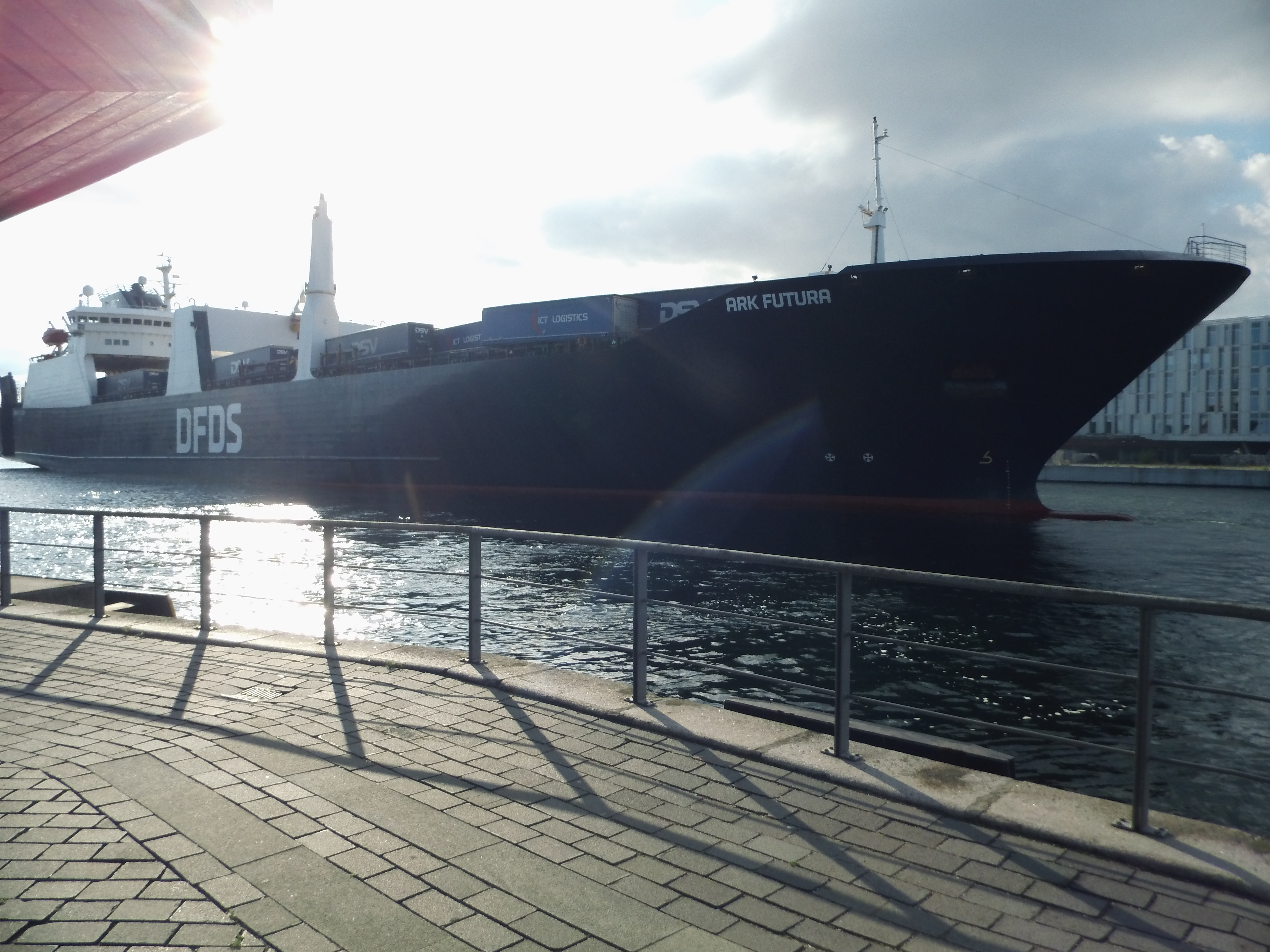 Ark Futura entering Copenhagen.